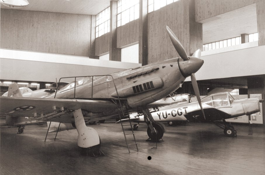 Ikarus S-49C - on display at the Technical Museum in Zagreb